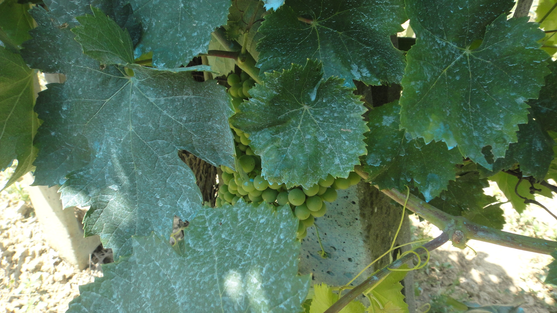 This is a picture of Bourdeaux mix (a fungicide made of copper sulfate and lime) on grape leaves near Montevibiano, in the province of Perugia, Italy.